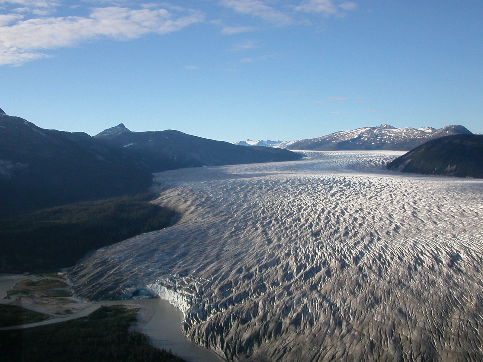 Glacial snout of Taku Glacier taken from Seaplane